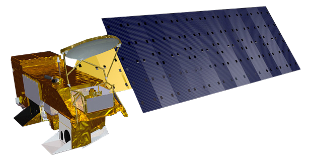 Artist's rendering, from NASA, of the Aqua spacecraft in its in-flight configuration. Part of the Earth Observing System, Aqua specifically studies the precipitation, evaporation, and cycling of water on Earth. It is also notably one of two satellites, along with Terra, that carries the Moderate-resolution imaging spectroradiometer (MODIS) photographic instrument, famous for its high-resolution imagery of the planet from orbit.